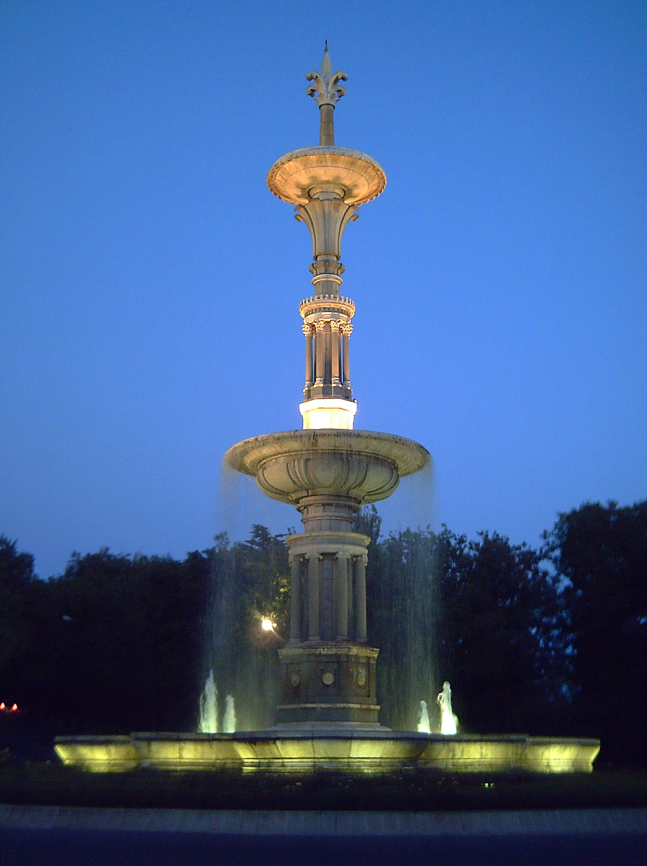 Fuente de Juan de Villanueva ("Fountain of Juan de Villanueva"), in the Parque del Oeste (a park) in Madrid (Spain). It's a monument in honour of architect Juan de Villanueva. A work by architects Víctor d'Ors, Manuel Ambrós and Joaquín Núñez Mera, and sculptor Santiago Costa. It was inaugurated on July 7, 1952.